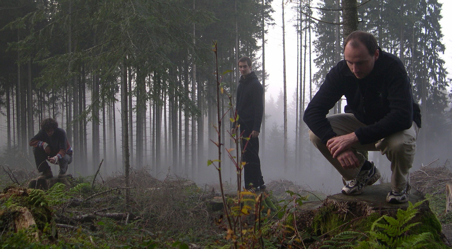 Dub Spencer & Trance Hill, the founders: Marcel Stalder, Adrian Pflugshaupt, Christian Niederer